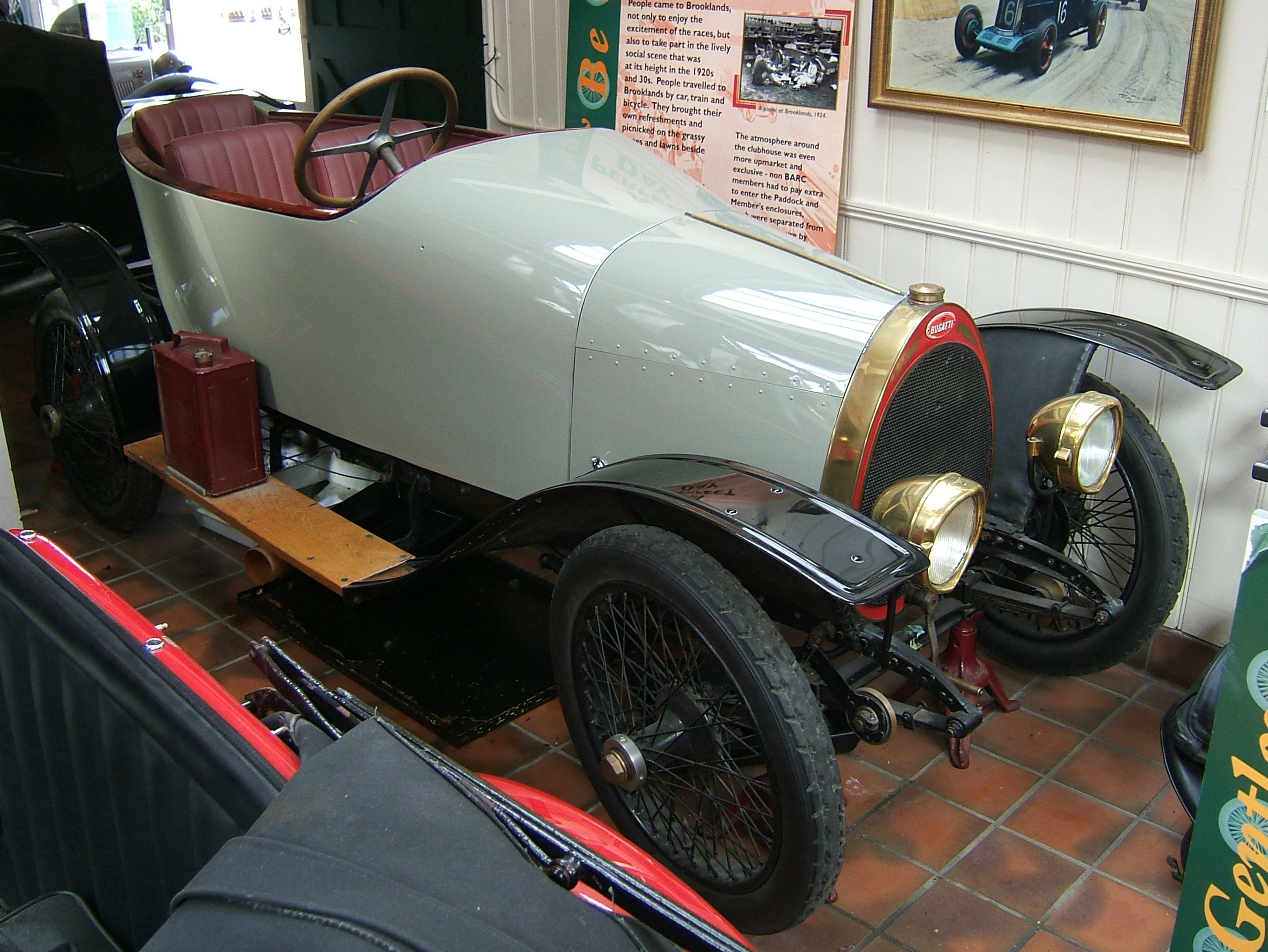 A Bugatti Type 15, built in 1914 but fitted with modern reproduction "Prince Henry", boat-tailed bodywork. In the Brooklands Museum at Brooklands motor racing circuit, Surrey, UK.